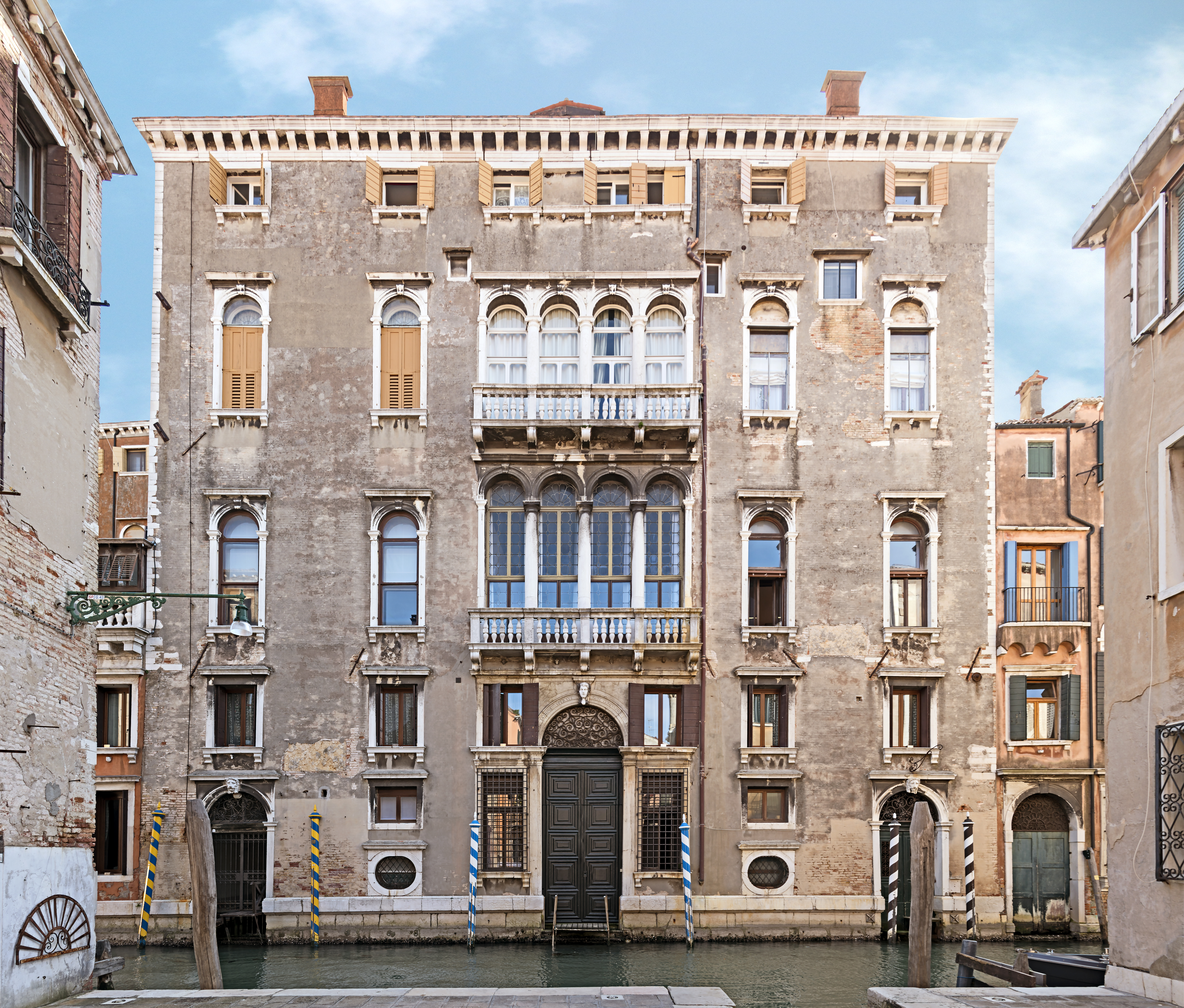 Palazzo Barbarigo della Terrazza Venice, Facade on Rio de San Polo.